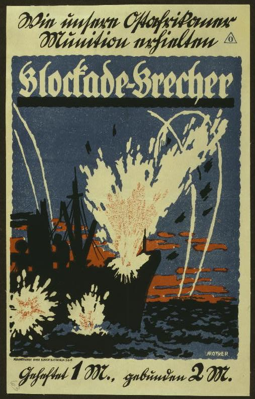 Poster shows explosions on and around a ship. Text is an advertisement (?) for a book about how a blockade runner delivered munitions to Germany's East African soldiers. Prices for bound and unbound editions are given. (The picture shows the cover of the book Blockade-Brecher by K.E. Selow-Serman, published by August Scherl, Berlin 1917.)